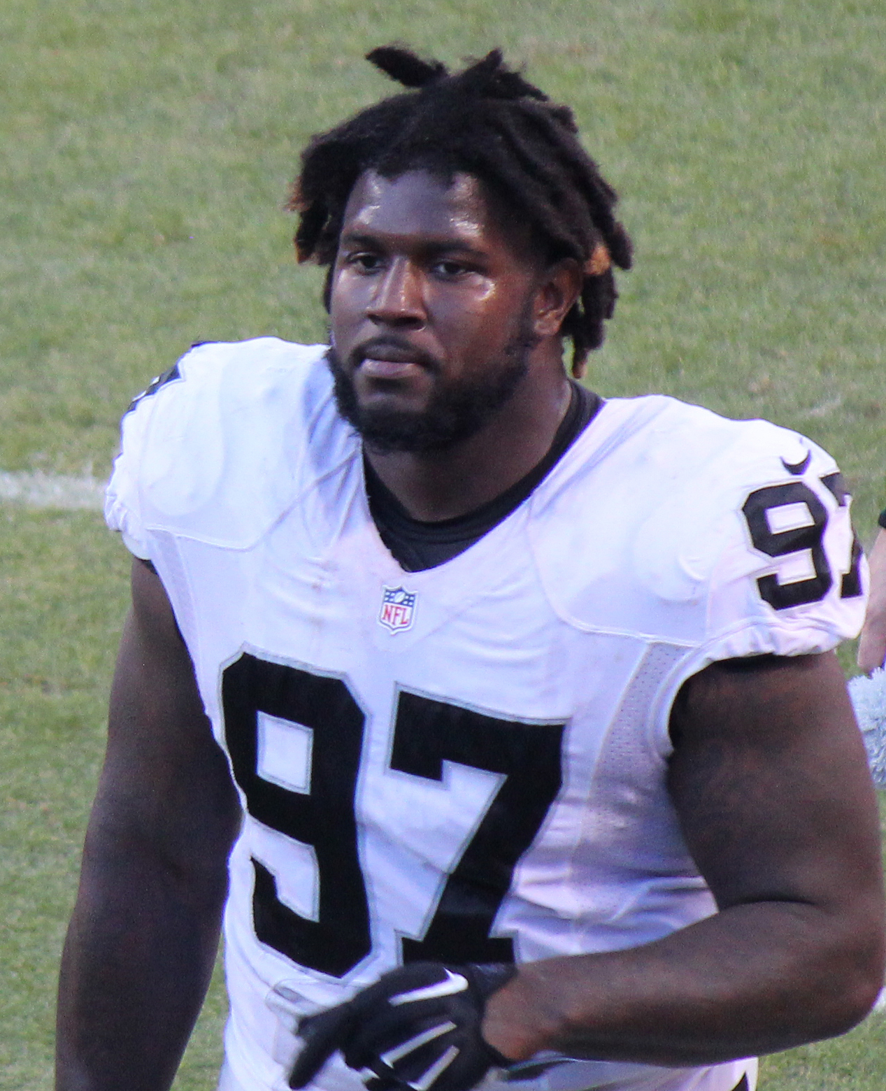 Mario Edwards, Jr., a player on the National Football League.